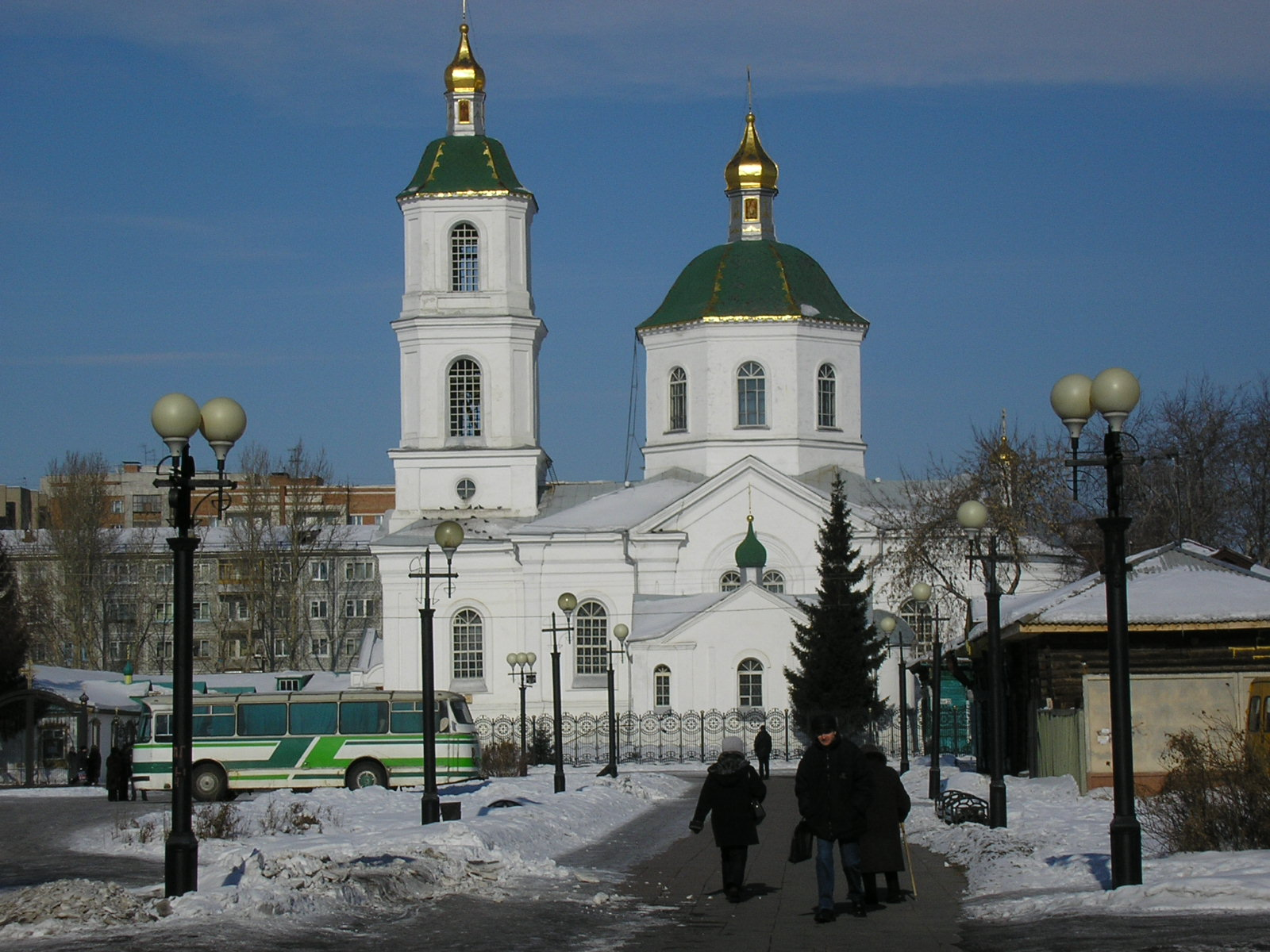 Omsk